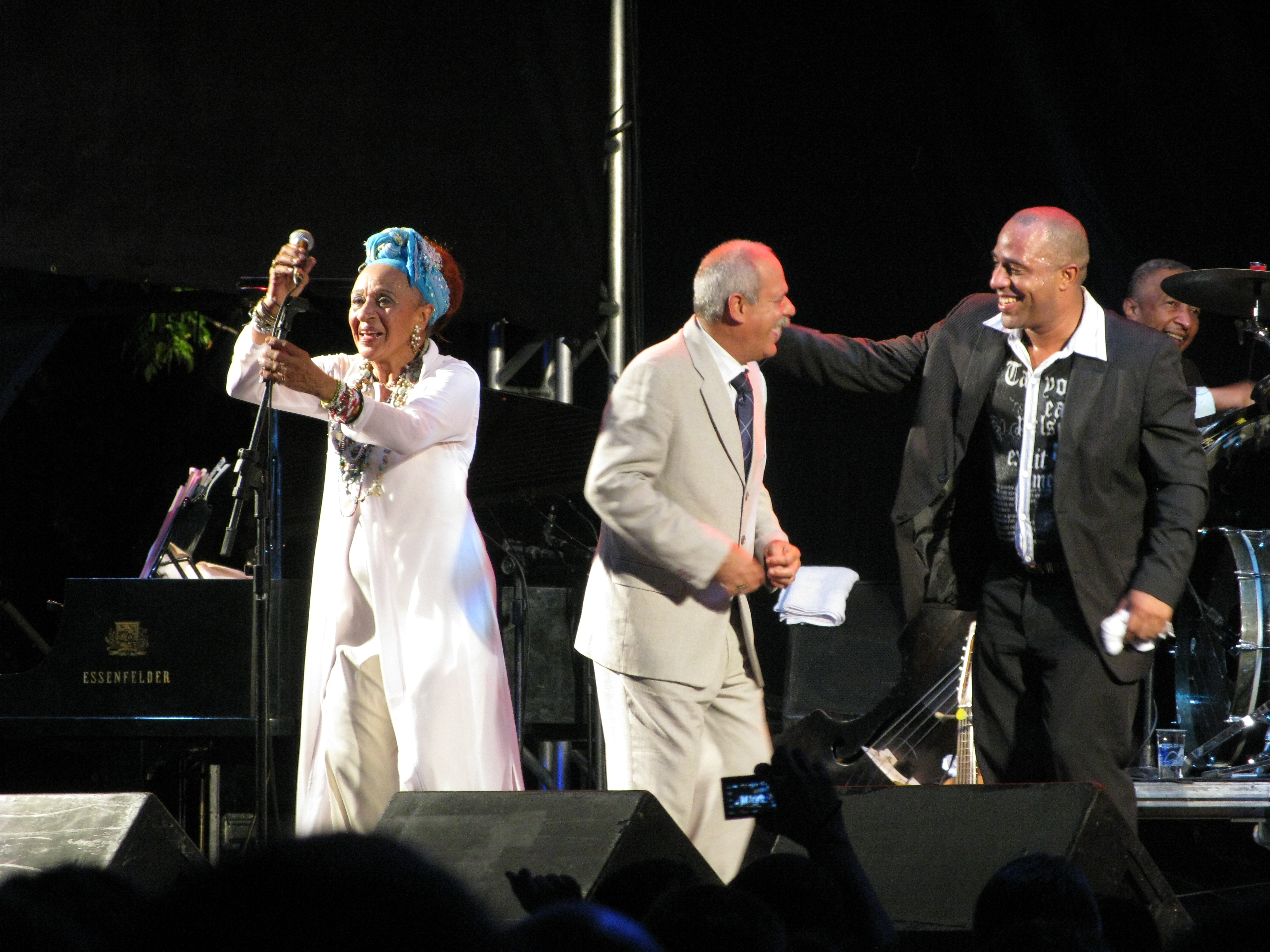 Teresa Garcia Caturla, Barbarito Torres and Johannes Bonat Garcia at the Buena Vista Social Club, Mostra Internacional de Música de Olinda (MIMO) 2009.